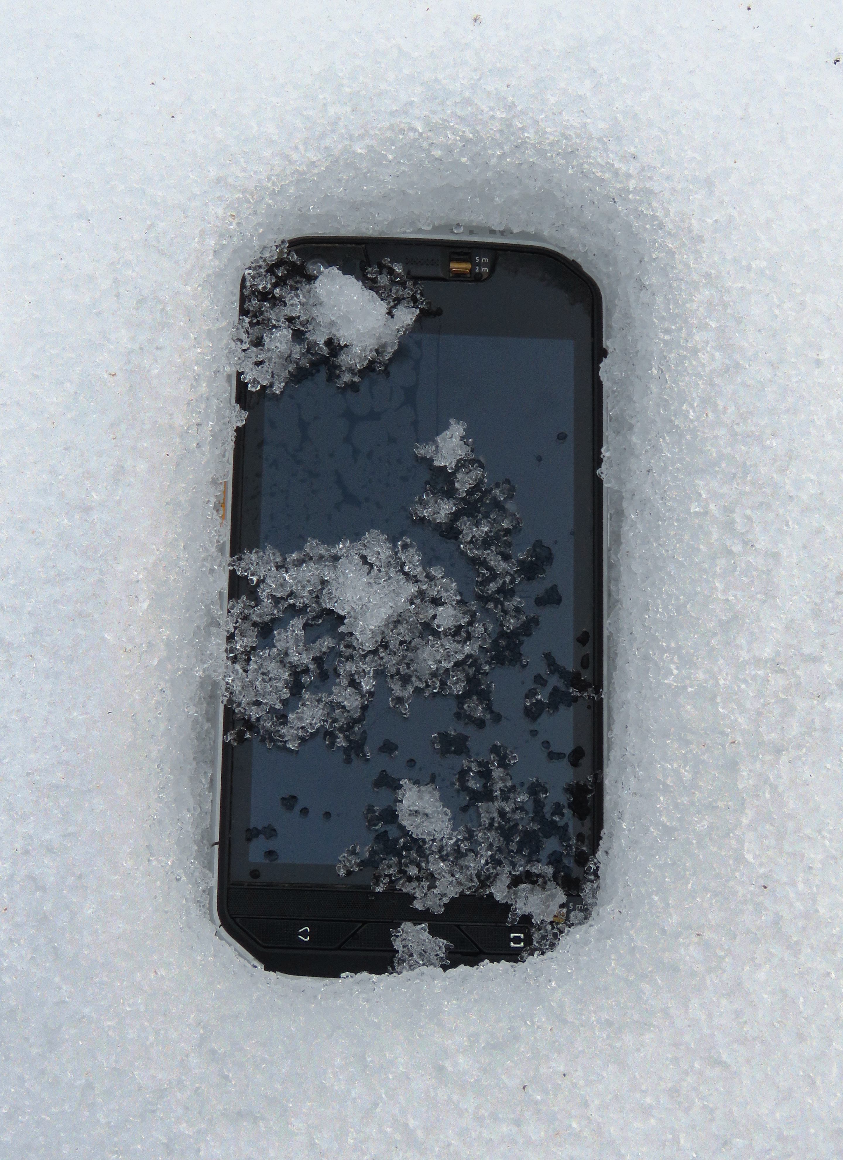 Waterproof phone (CAT S60) in Snow.